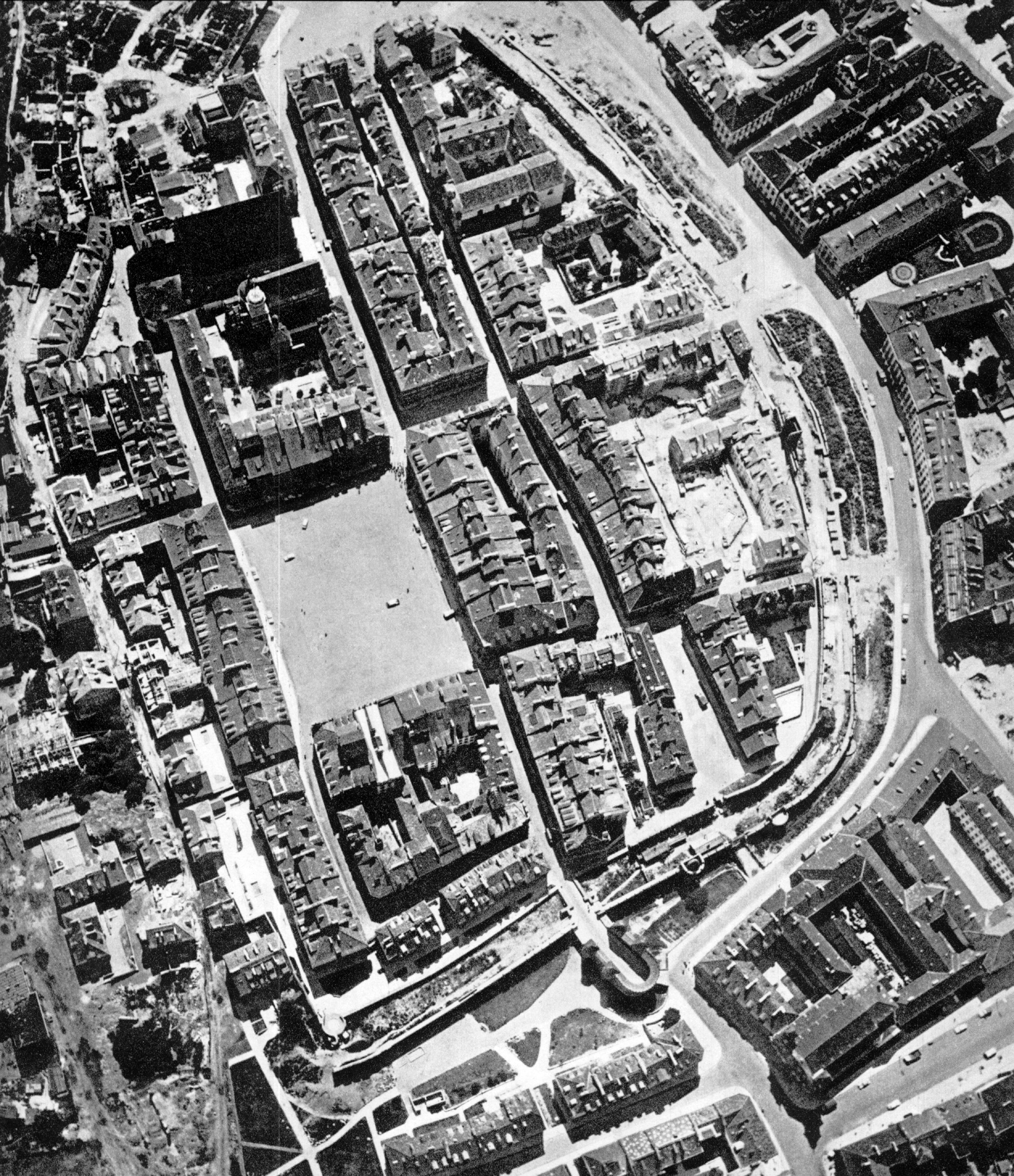 Aerial view of the Old Town of Warsaw in 1960s Česky: Varšavské Staré město z ptačí perspektivy v 60. letech 20. století